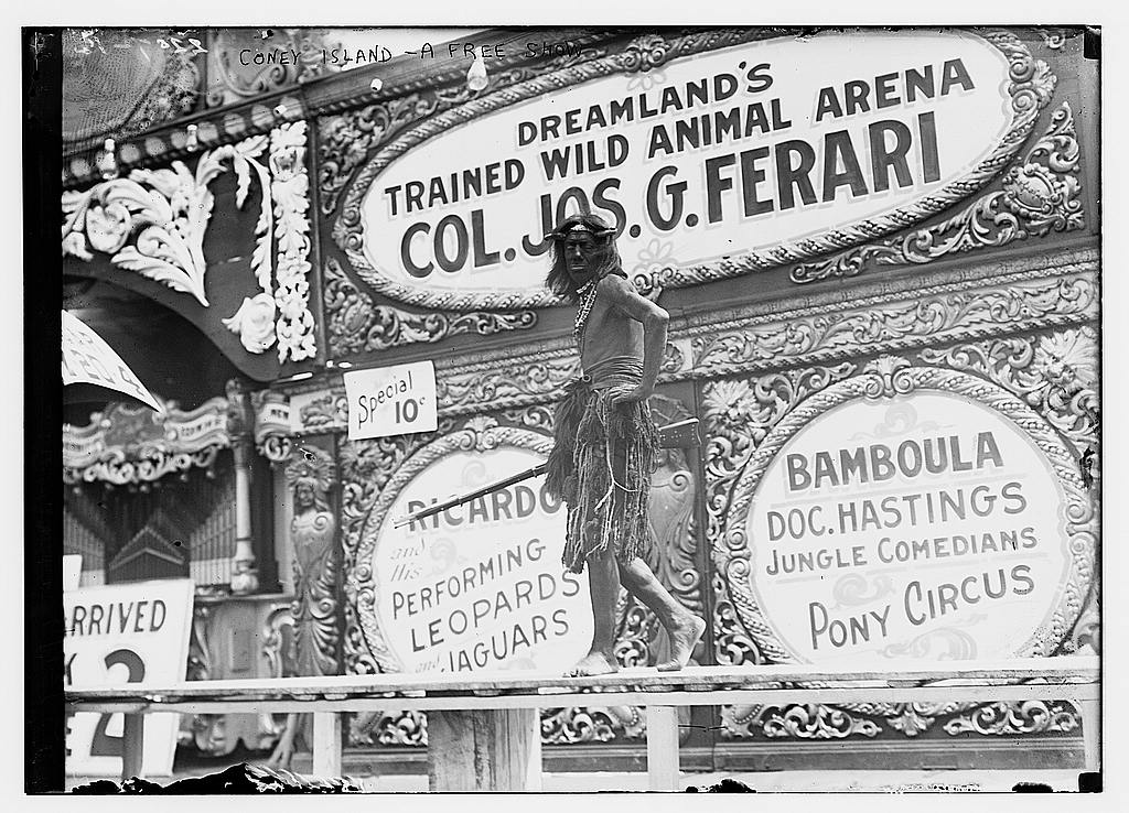 Bain News Service,, publisher. Coney Island, A Free Show from Colonel Joseph G. Ferari at Dreamland (amusement park) [between ca. 1910 and ca. 1915] 1 negative : glass ; 5 x 7 in. or smaller. Notes:Title from unverified data provided by the Bain News Service on the negatives or caption cards.Forms part of: George Grantham Bain Collection (Library of Congress). Format: Glass negatives. Repository: Library of Congress, Prints and Photographs Division, Washington, D.C. 20540 USA, General information about the Bain Collection is available at Persistent URL: Call Number: LC-B2- 2207-12